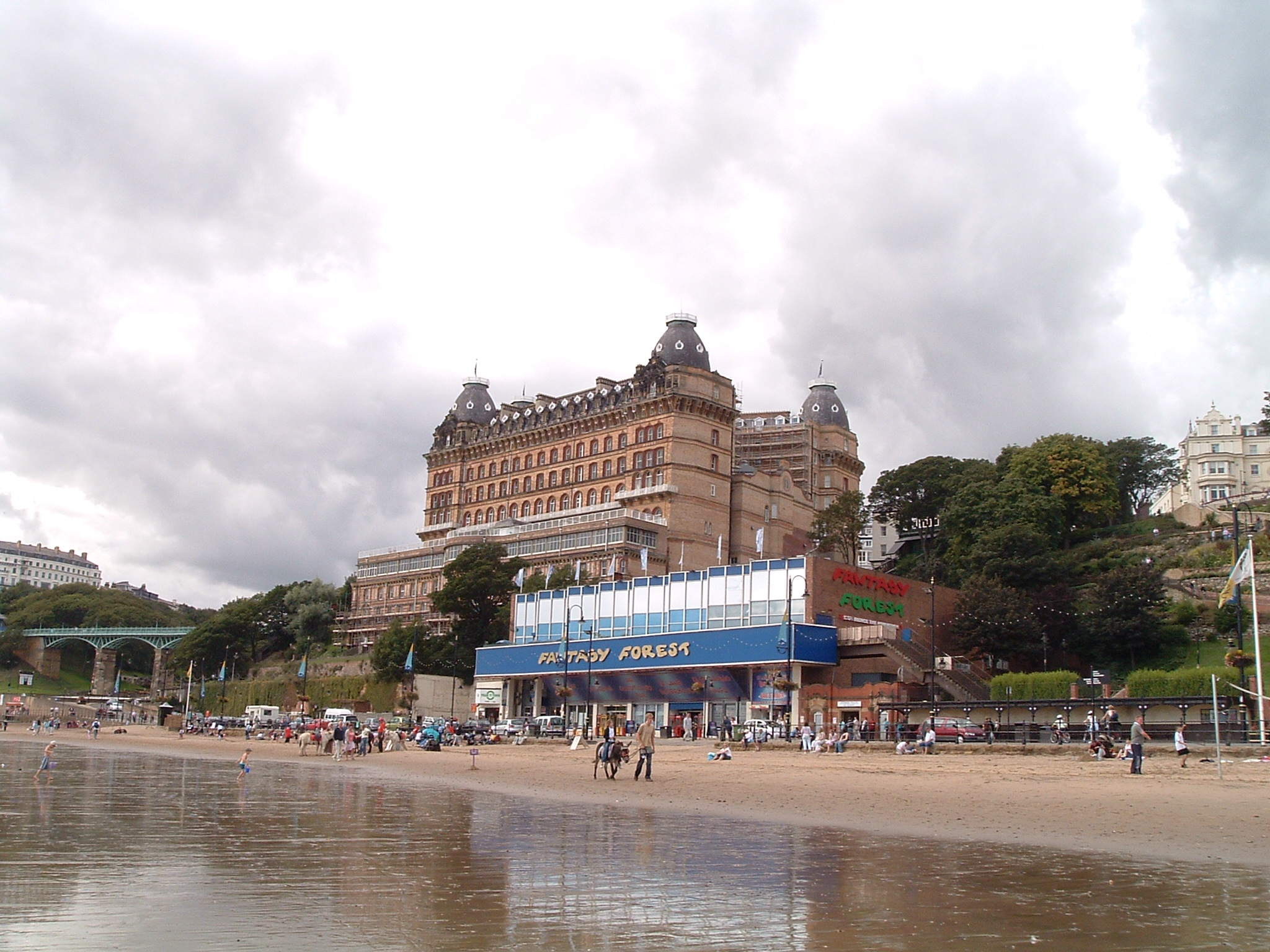 The Grand Hotel, Scarborough